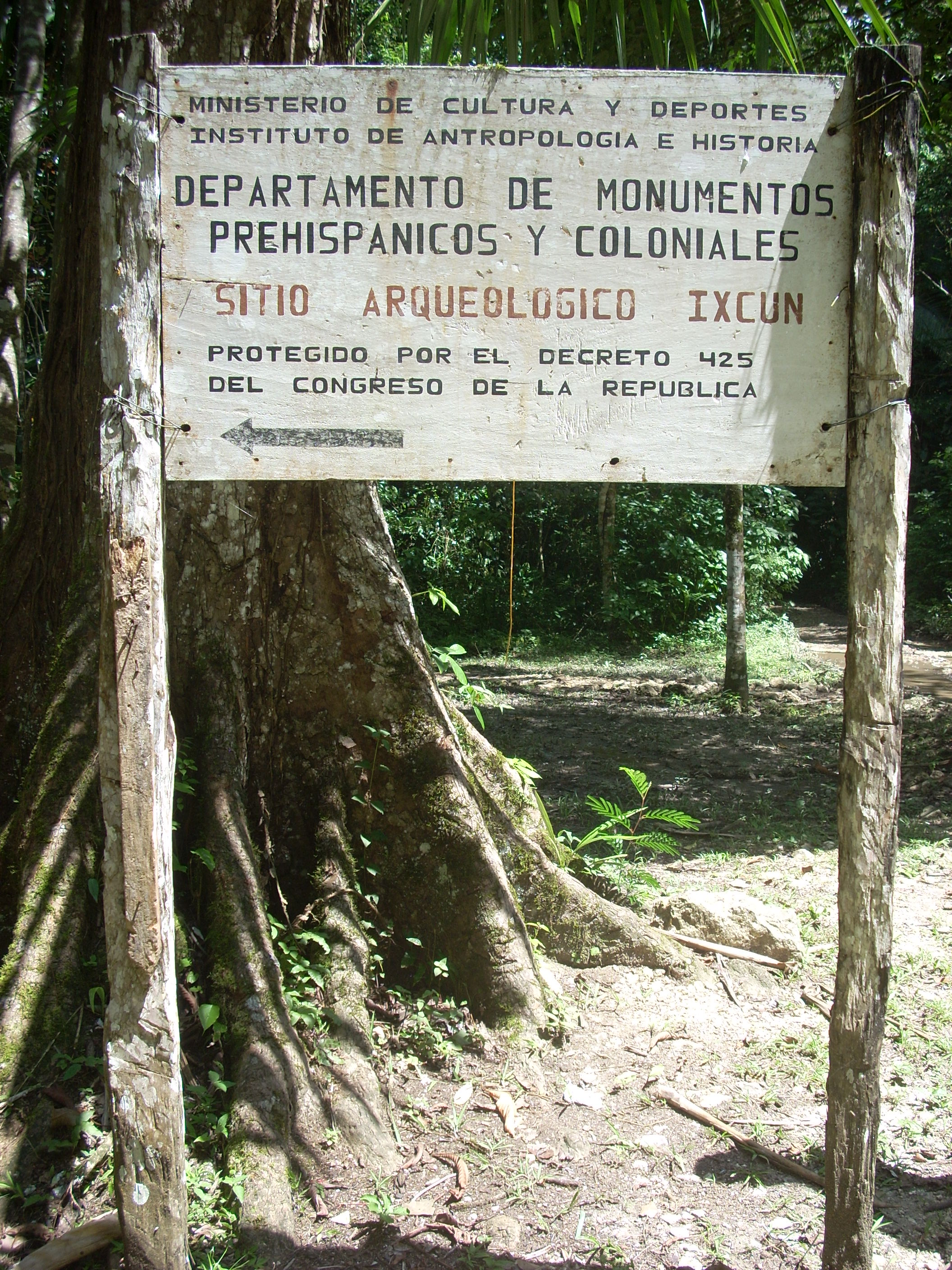 Entrance sign at Ixkun Maya archaeological site, Petén, Guatemala.